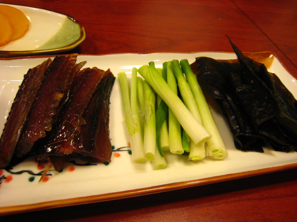 Gwamegi (과메기), Korean half-dried cheongeo (청어, pacific herring) or kongchi (pacific saury made during winter.